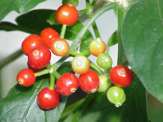 Species: Cephaelis acuminata Family: Rubiaceae Image No. 5